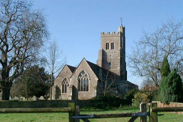 Parish Church, Wittersham, Kent. One of the many churches around the Isle of Oxney and Romney Marsh.